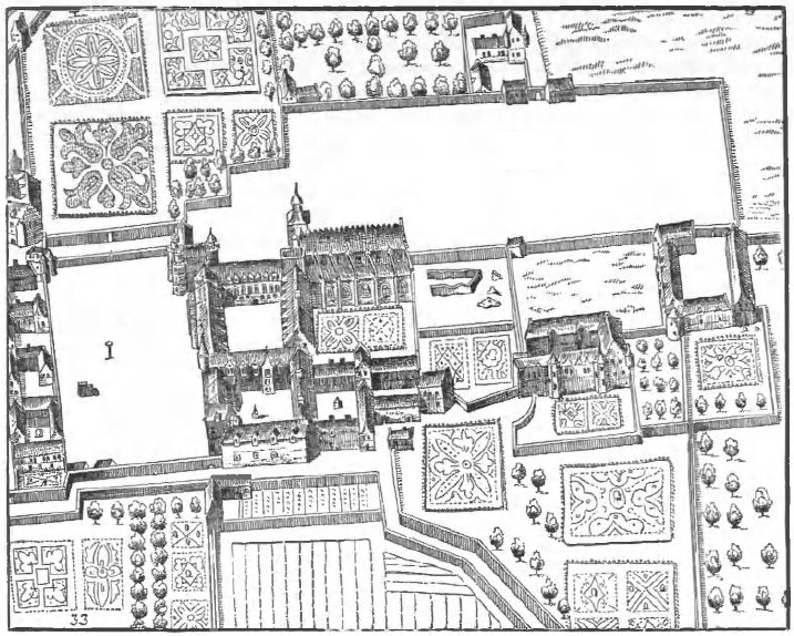 Bird's Eye View of Holyroodhouse